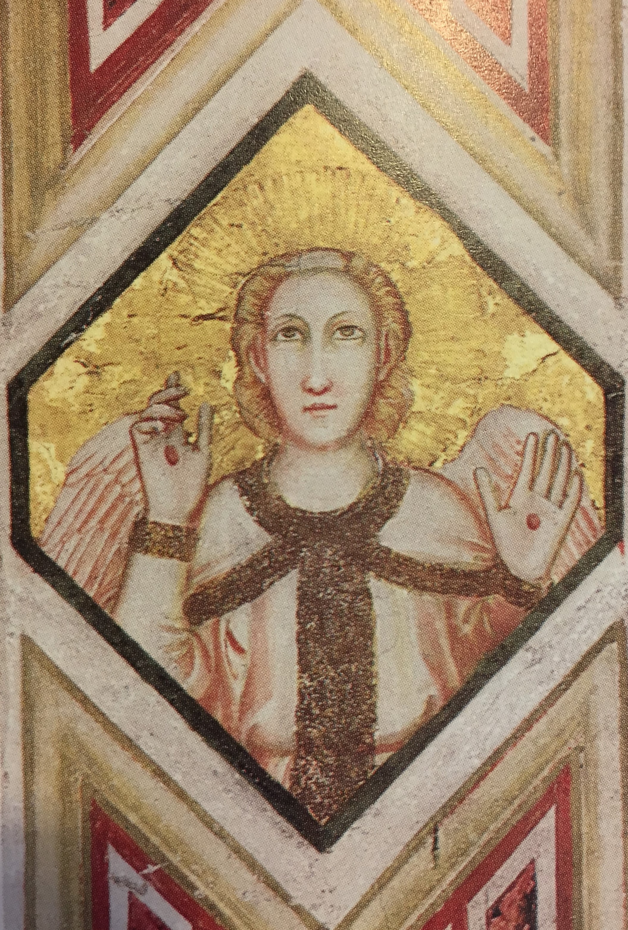 Angelo del sesto sigillo con stimmate